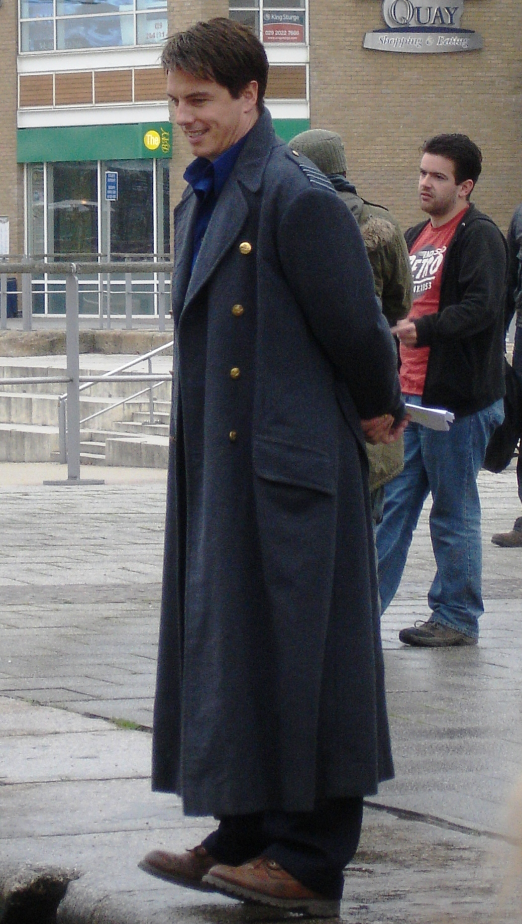 Filming "Torchwood" in Cardiff, John Barrowman as Captain Jack Harkness